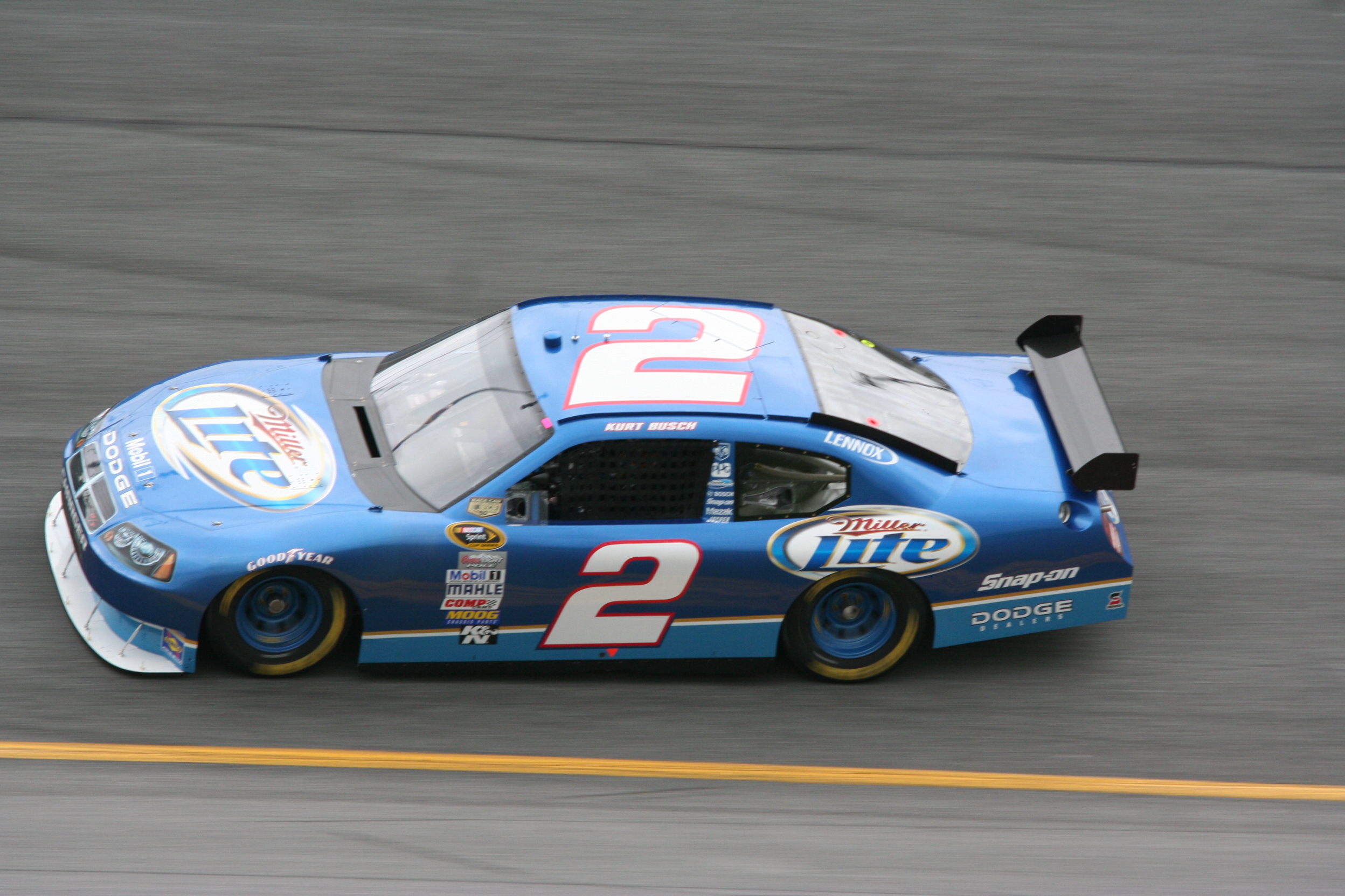 Shot by The Daredevil at Daytona during Speedweeks 2008